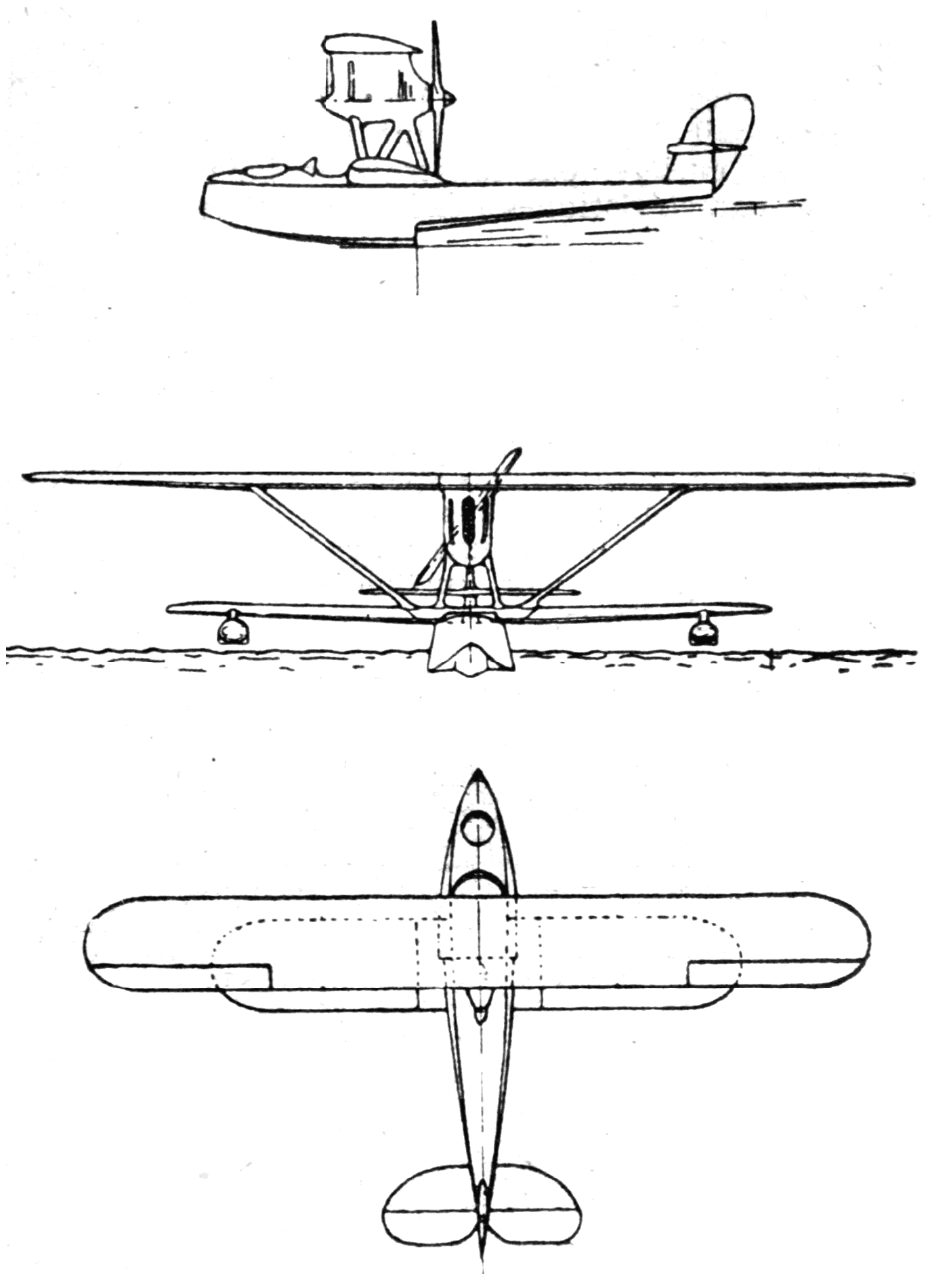 Ikarus IM 3-view drawing from L'Air May 15,1926